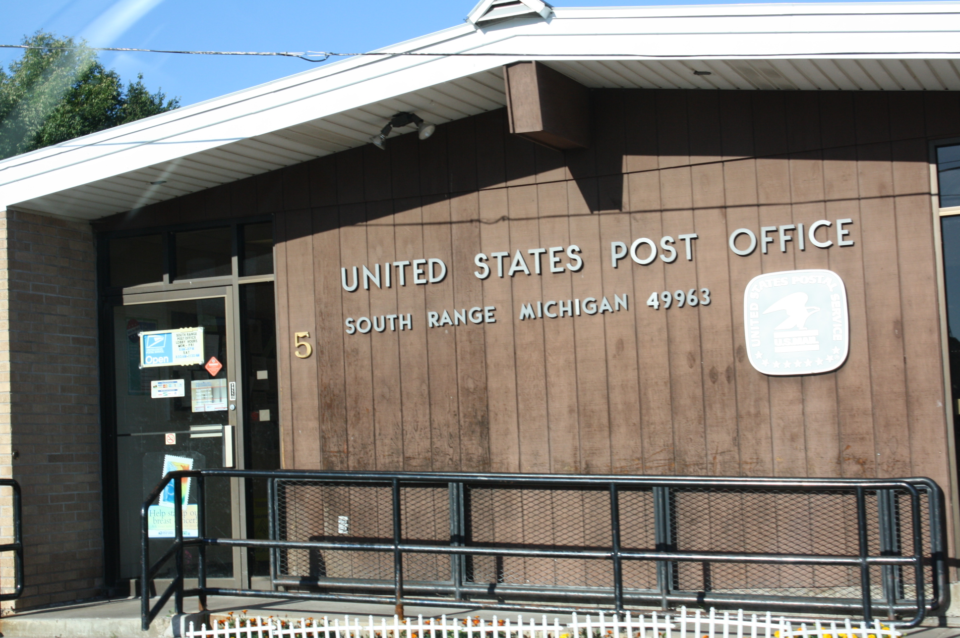 The post office for South Range, Michigan on M-26 (Michigan highway).